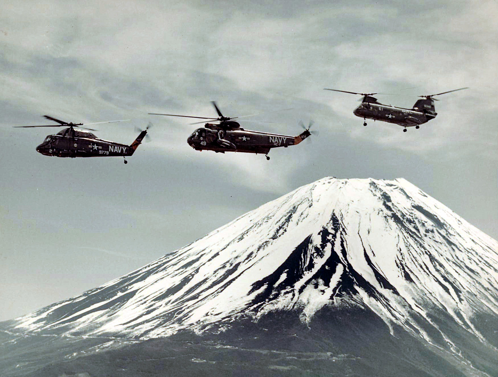 A U.S. Navy Kaman UH-2A Seasprite (BuNo 149779), a Boeing Vertol UH-46D Sea Knight (BuNo 15341?), and a Sikorsky HH-3A Sea King of Helicopter Combat Support Squadron HC-7 Sea Devils in flight with Mt. Fuji, Japan, in the background. HC-7 was primarily engaged in combat search and rescue operations in Vietnam, using Seasprite and Sea King helicopters.